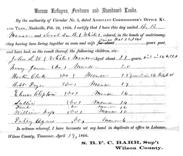 Certificate from the Bureau of Refugees, Freedmen and Abandoned Lands, uniting in marriage B. B. Manson and Sarah Ann Bo, as having been common-law husband and wife since 1843. Lebanon, Wilson County, Tennessee